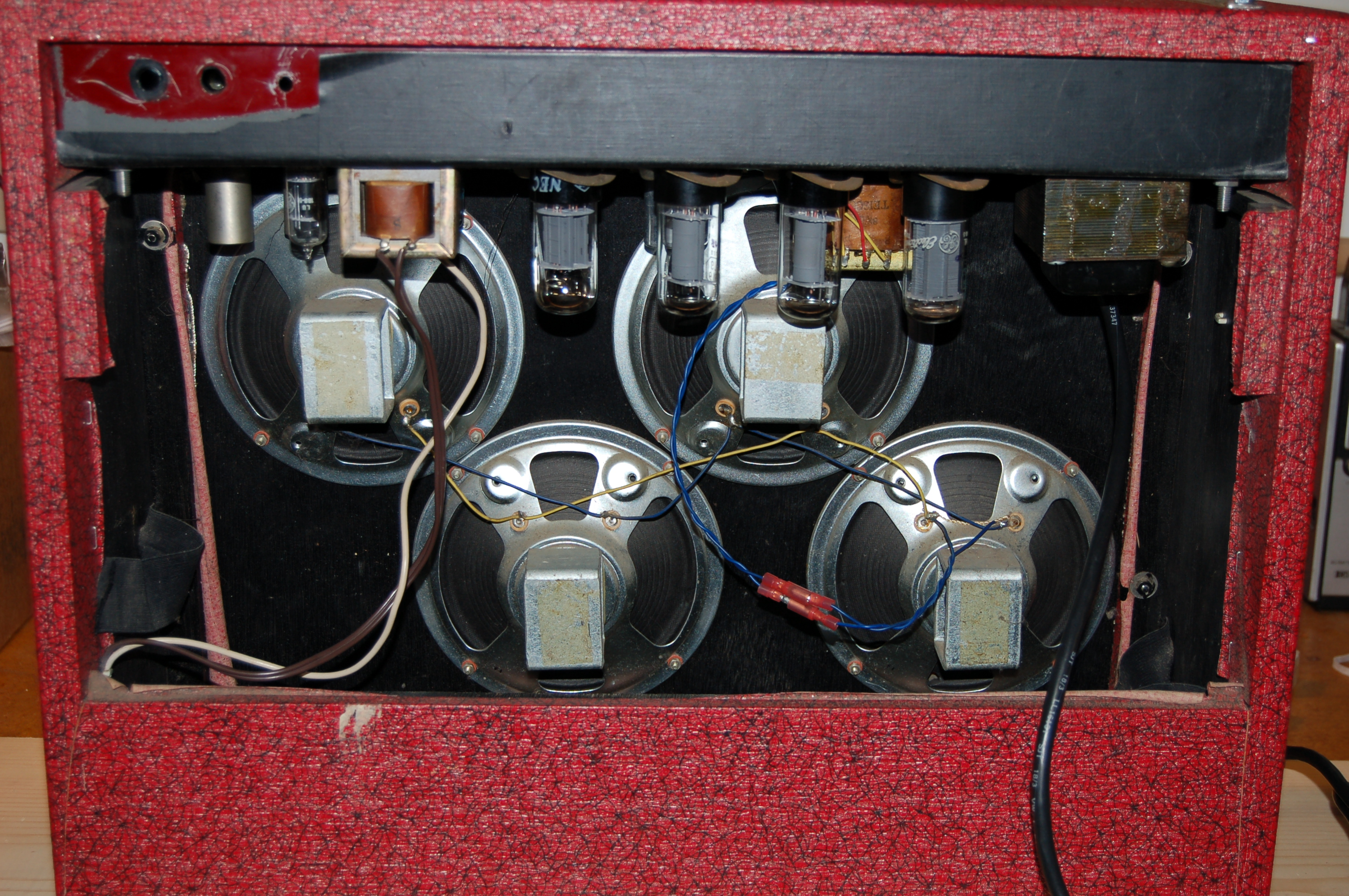 Most guitar amplifiers designed around a pair of 6V6GT output tubes use a single 10" or 12" speaker. This Teisco amp uses four 6" speakers instead. It's different, and it doesn't have a lot of bass, but it actually sounds good. Someday these speakers should be re-coned, but for now they sound alright. Flickr Tags: tremolo 6V6GT valve amp tube amp vacuum tube amp tube guitar amp vacuum tube guitar amp amp amplifier guitar amp guitar amplifier Teisco Del Rey Teisco Teisco amp Teisco guitar amp Teisco guitar amplifier.